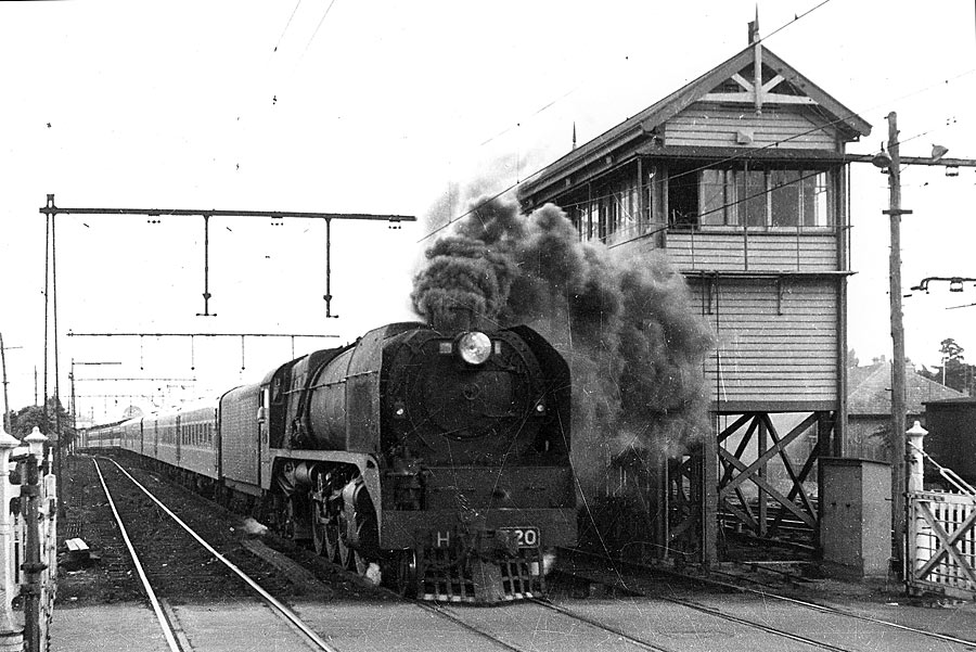 H 220 leads the Albury Express out of Melbourne, past the signalbox at Essendon, circa 1949. Victorian Railways photograph